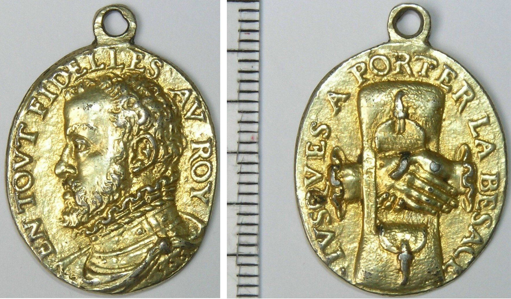 Recently taken better picture then is given in file "Image:1 Verguld zilveren Geuzenpenning 1566, Jongelinck.jpg".